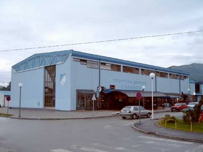 Work by uploader